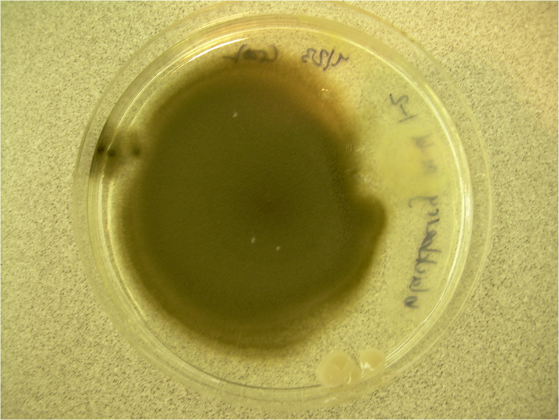 Aureobasidium growing on a potato dextrose agar plate. Identified using Barnett, H. L. & Hunter, B. B. (1998) Illustrated Genera of Imperfect Fungi. APS Press: St. Paul, MN; pp. 70–1 ISBN 0-89054-192-2. Recovered from a varnish tree (Koelreuteria paniculata Laxm.). Nonpathogenic—environmental isolate.